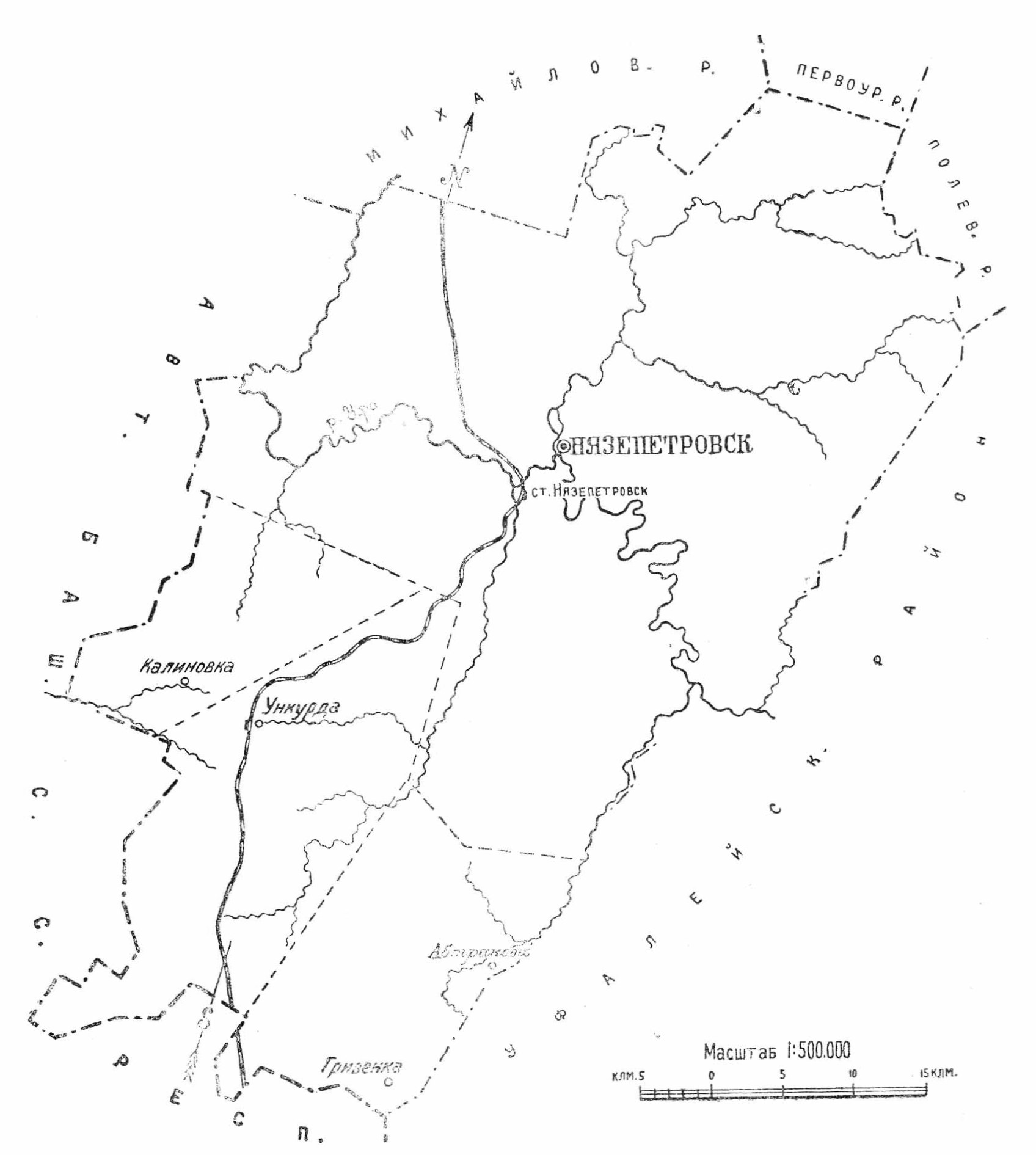 Map of Nyazepetrovskiy rayon (Sverdlovskiy okrug of Uralic Region of RSFSR) in 1928.